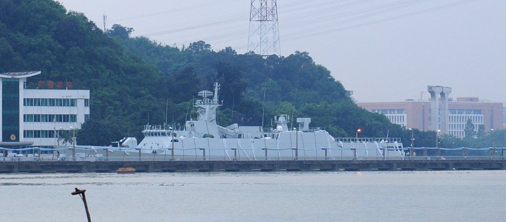 Type 056 corvette 597 QinZhou in Huangpu